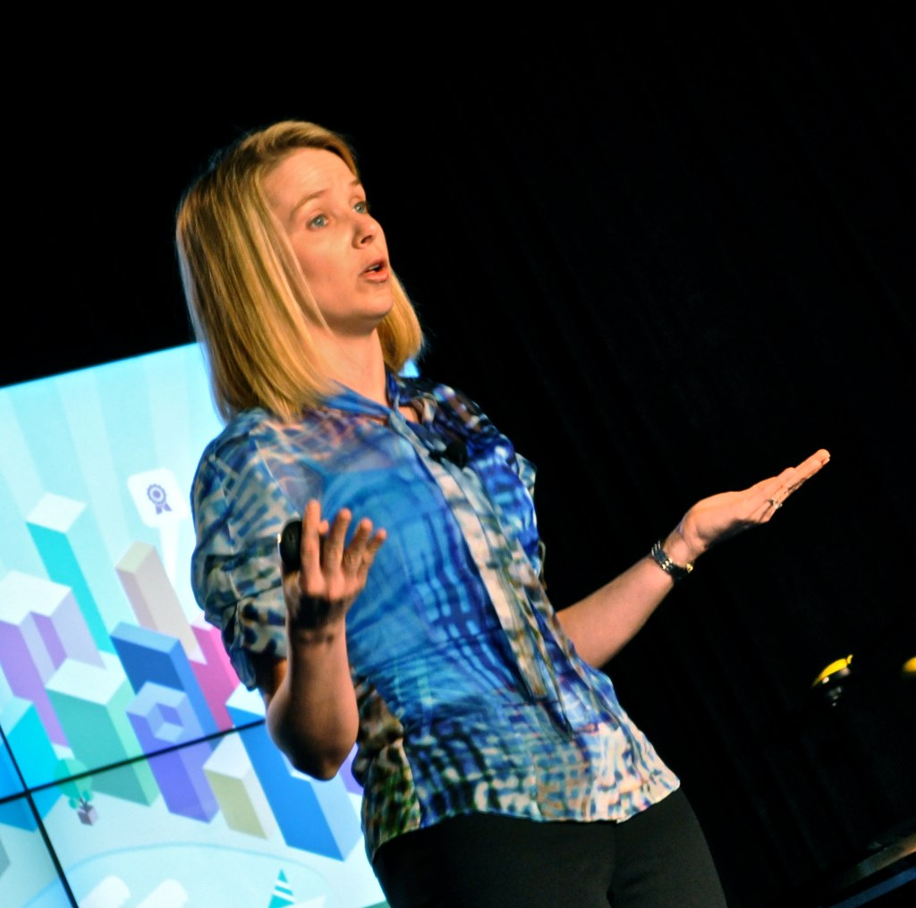 Marissa Mayer speaking at an unknown event in 2011.